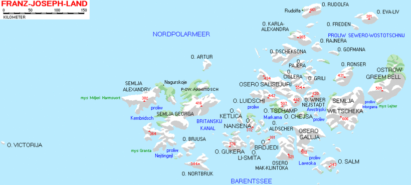 Franz-Josef Land, Map ca. 1:3 millions (Map from german Wikipedia; created by User:Geograv; now User:Rauenstein)